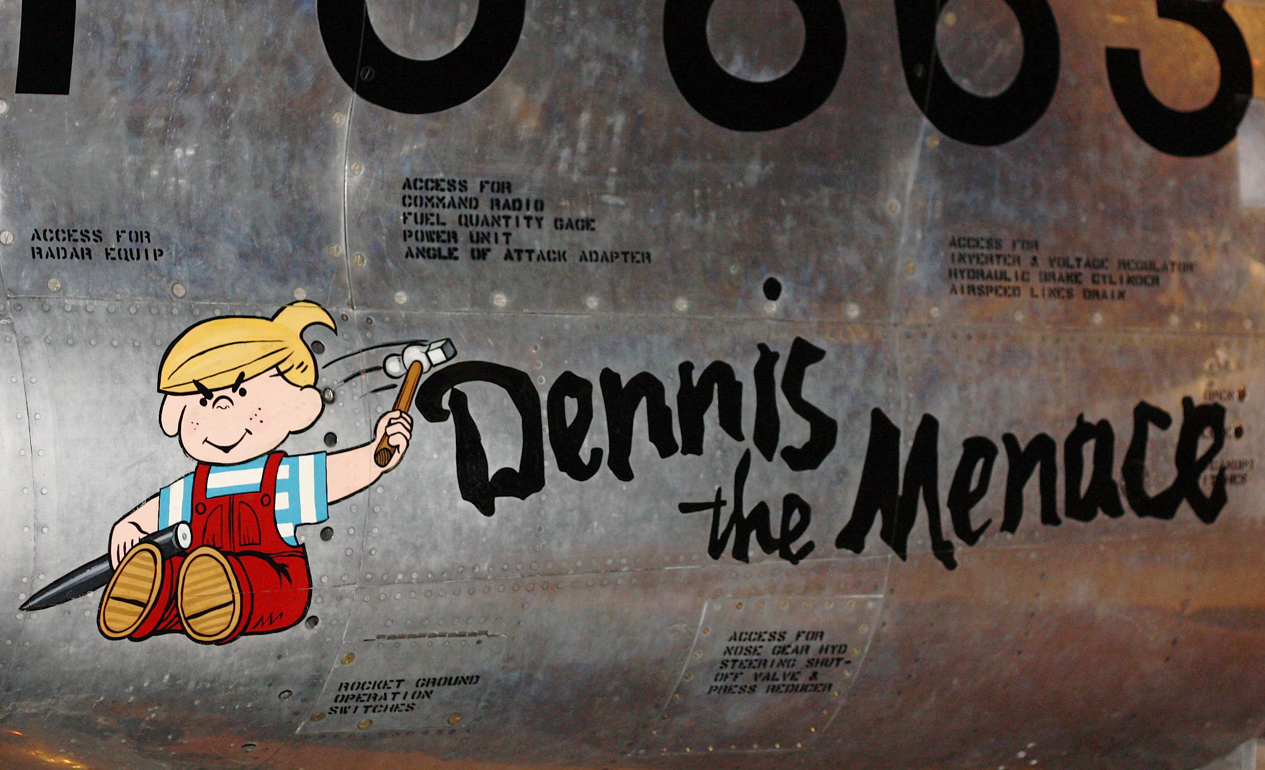 Dennis the Menace nose art at the United States Airforce museum